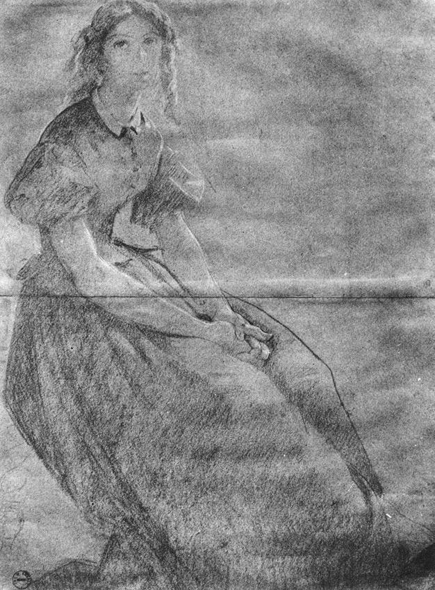 Blanka Teleki in Prison (Black and white chalk on paper, 695 x 510 mm, Hungarian National Gallery, Budapest)